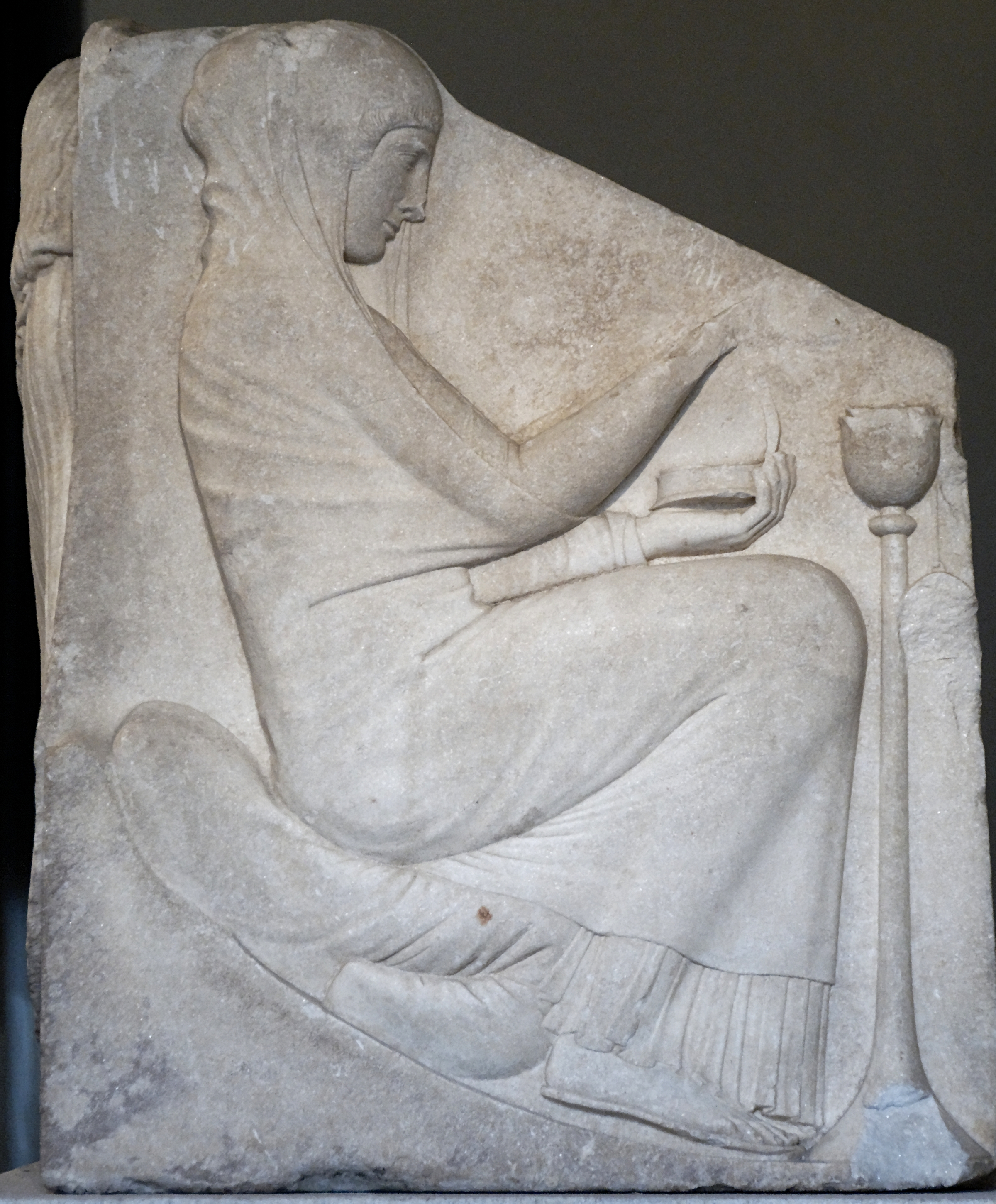 So-called “Ludovisi Throne”: right-hand panel, a woman wearing a tunic and a cloak places incense in a thymiaterion (incense-burner). Thasian marble, Greek artwork, ca. 460 BC (authenticity disputed). Found in 1887 during public works in the Villa Ludovisi.